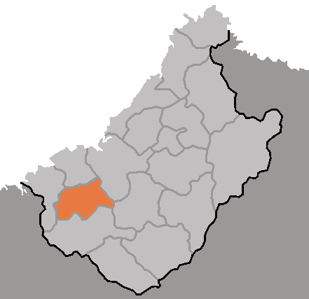 Map of Kopung, Chagang-do, DPRK, 2006